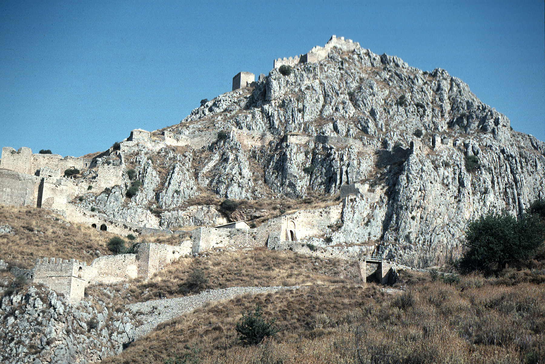 View of the Corinthian acropolis, the Acrocorinth, from the city below.